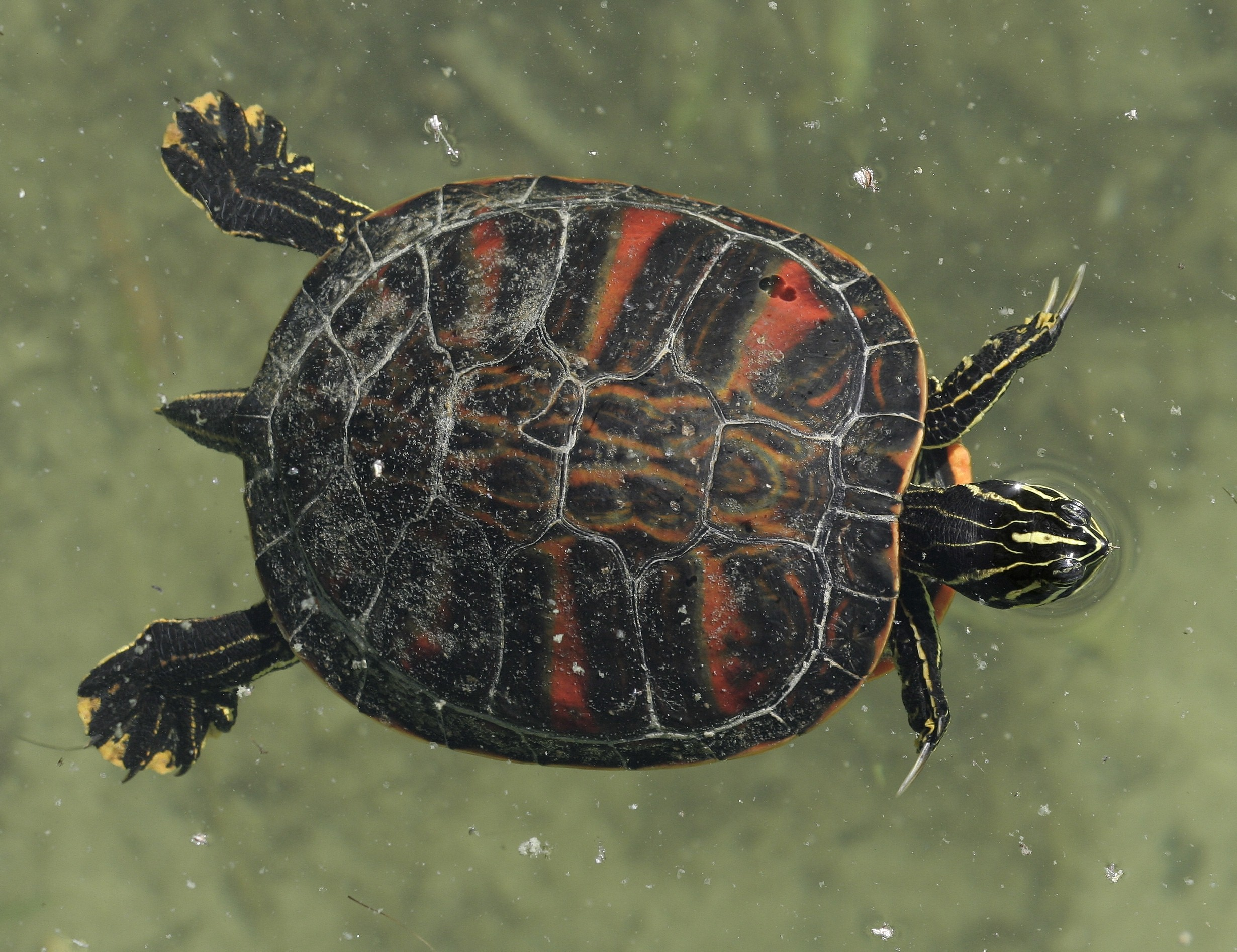 Pseudemys nelsoni (Florida Redbelly Turtle) while swimming